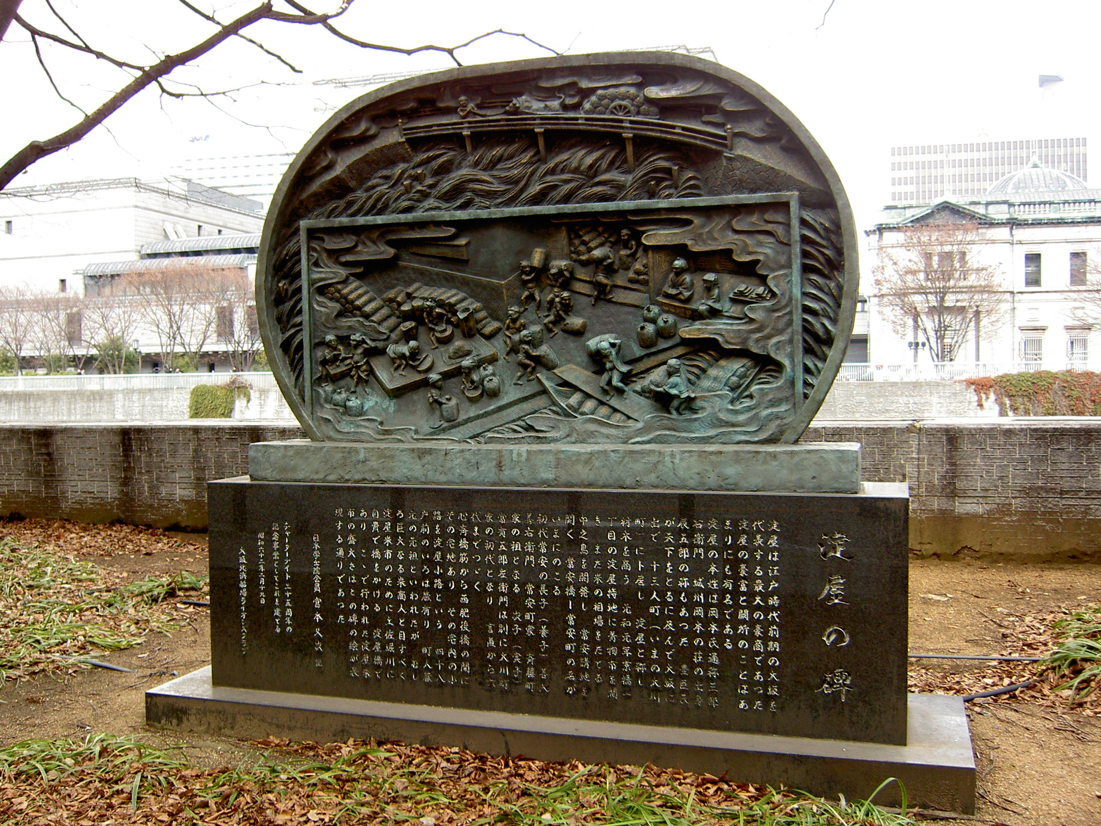 A monument of Yodoya, 4, Kitahama, Chuo-ku, Osaka Japan.